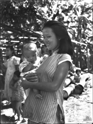 RABAUL AREA, NEW BRITAIN. 1945-09-13. CHINESE CIVILIANS, INTERNED BY THE JAPANESE AT A CAMP 15 MILES WEST OF RABAUL, WERE CONTACTED BY A PARTY OF AUSTRALIAN ARMY AND RED CROSS OFFICIALS SOON AFTER THE ARRIVAL AT RABAUL OF A FORCE FROM 4 INFANTRY BRIGADE TO OCCUPY THE AREA. ONE OF THE INTERNEES, MRS LEONG CHOI SHOW, AND HER BABY, BORN IN THE CAMP A FEW MONTHS BEFORE THE JAPANESE SURRENDER.